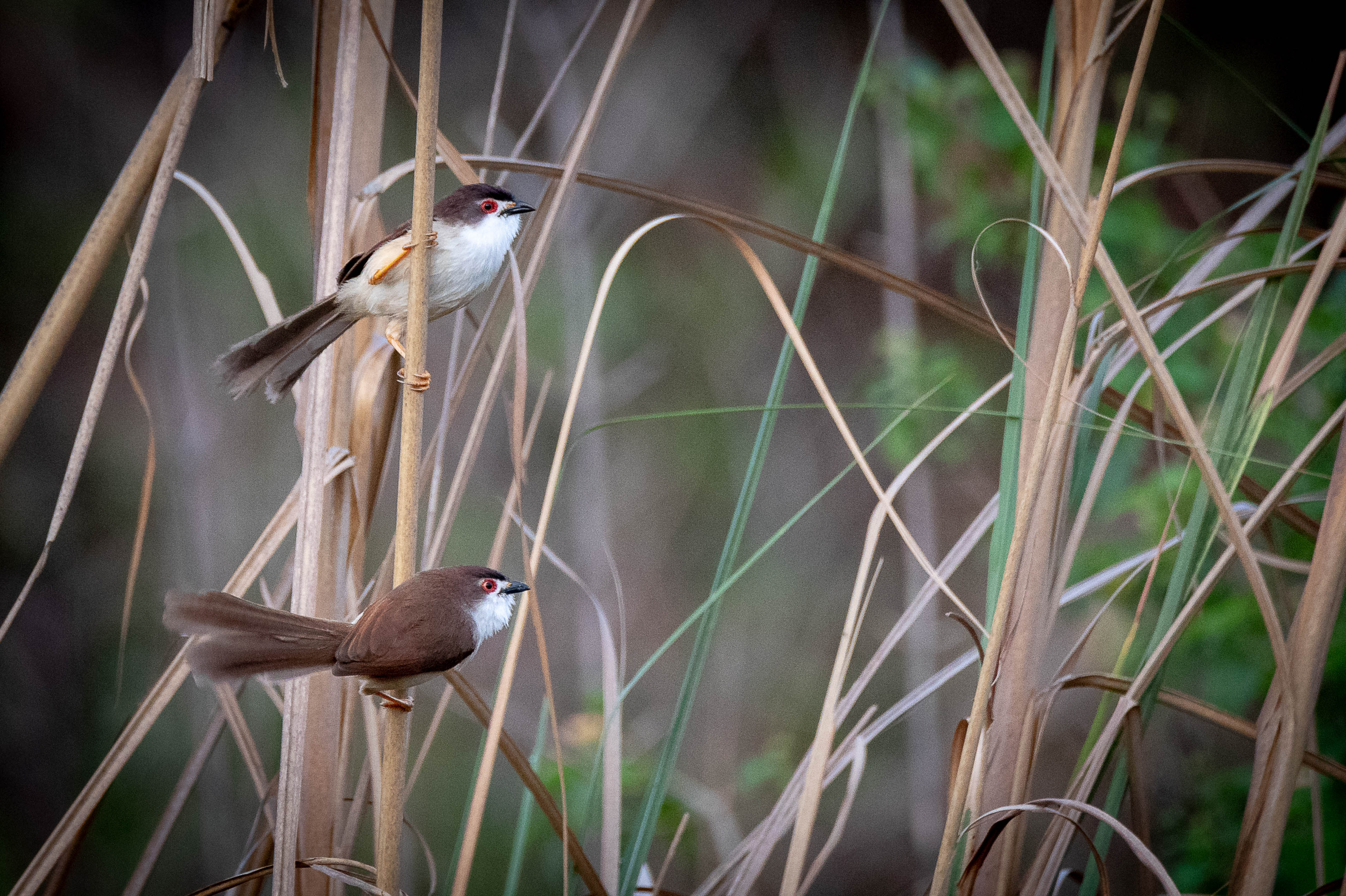 Yellow-eyed babbler in its habitat, at Koshi Tappu Wildlife Reserve.